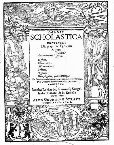 1st page of the book: Ogdoas scholastica..., published in St. Gallen in 1609